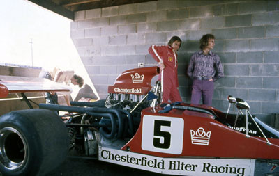 Kevin Bartlett and his Lola T300 at Surfers Paradise International Raceway for the Gold Star Series 27th August 1972, photo by Graham Ruckert.